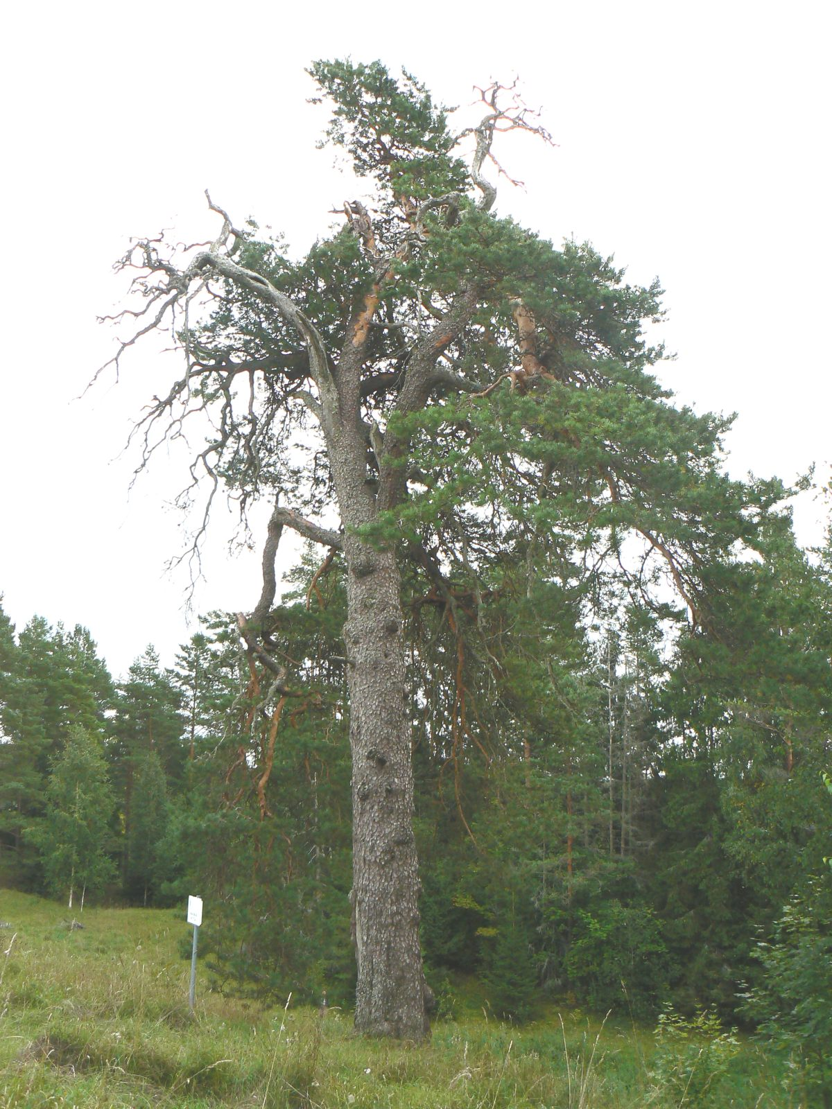 Napimäe pine in Estonia